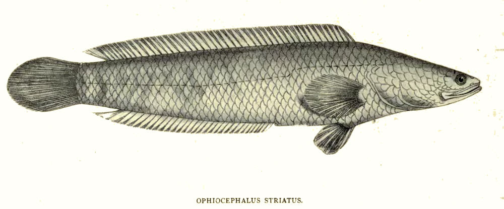 Ophiocephalus striatus = Channa striata (Bloch, 1793)